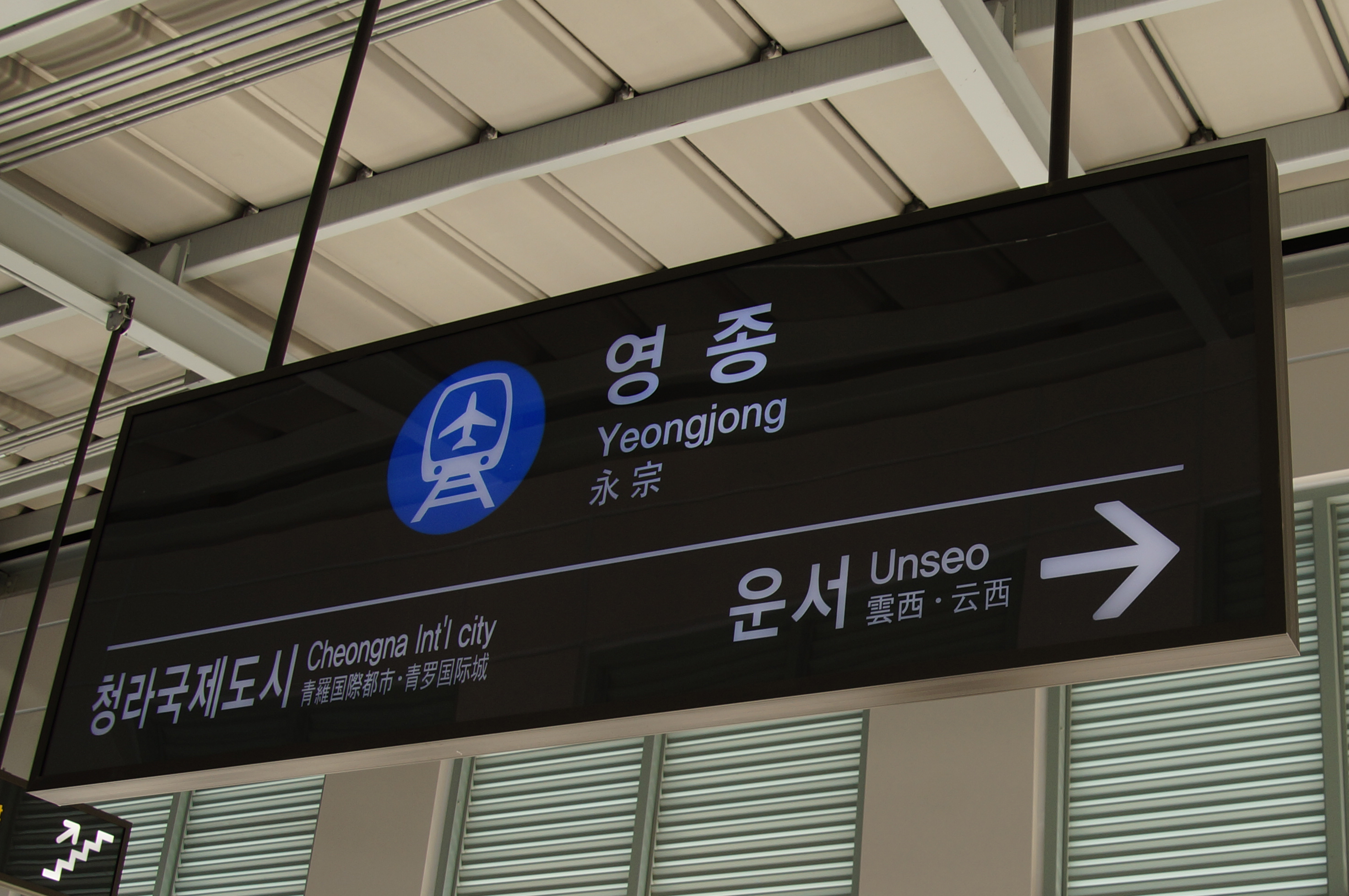 A look at a sign at Yeongjong Station on the Airport Railroad.